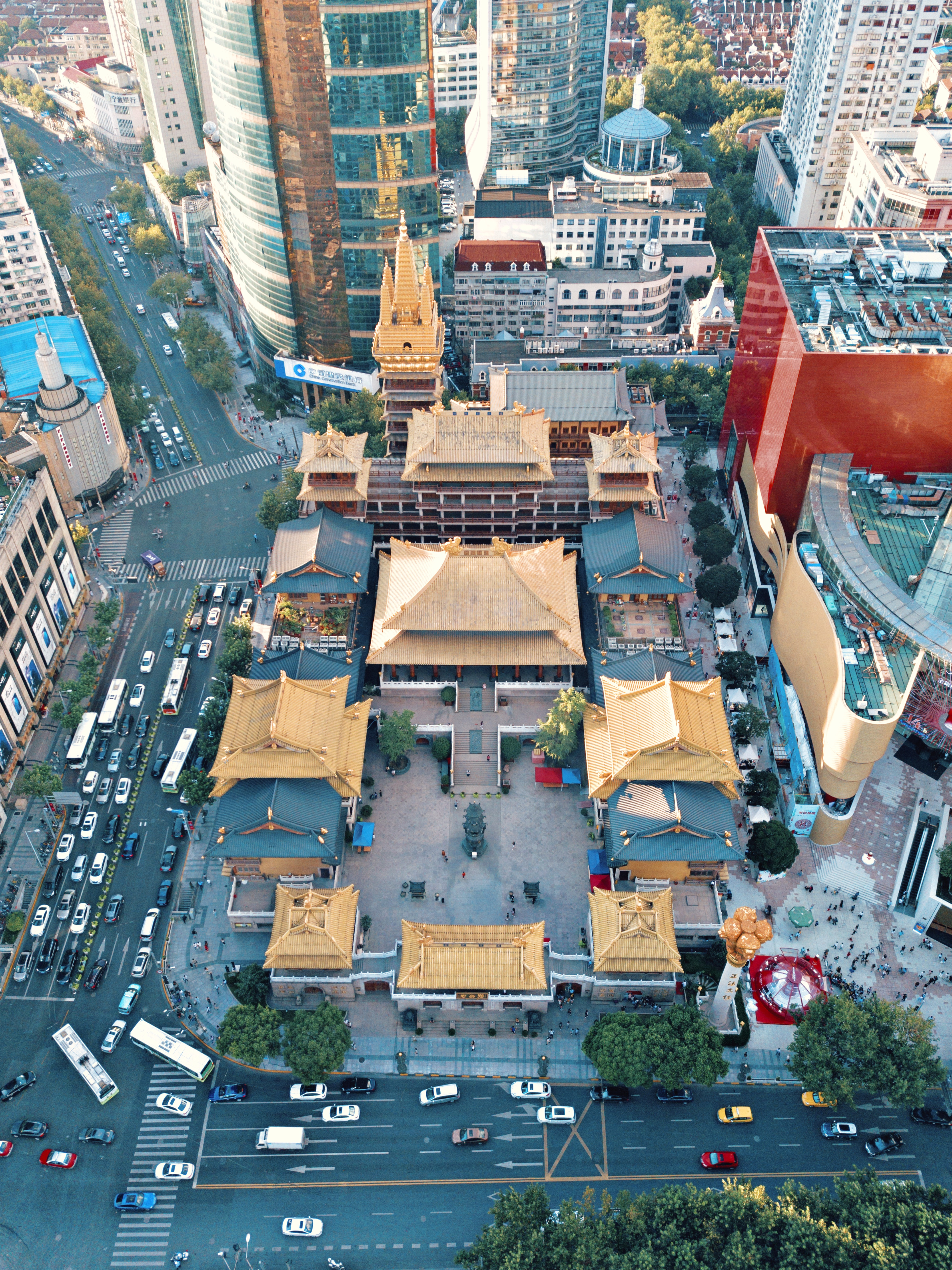 Aerial photo of Jing'an Temple, Shanghai 中文（中国大陆）: 静安寺，无人机俯拍